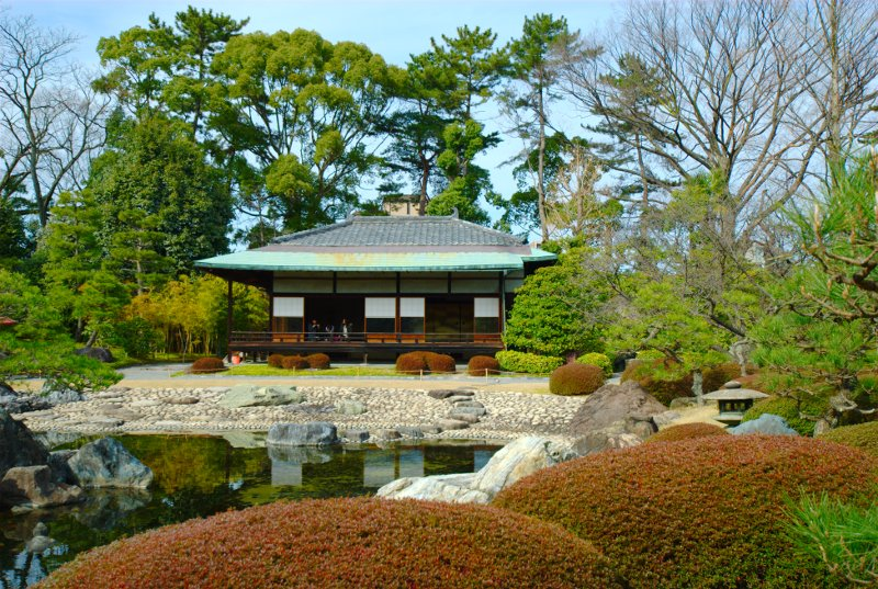 teahouse